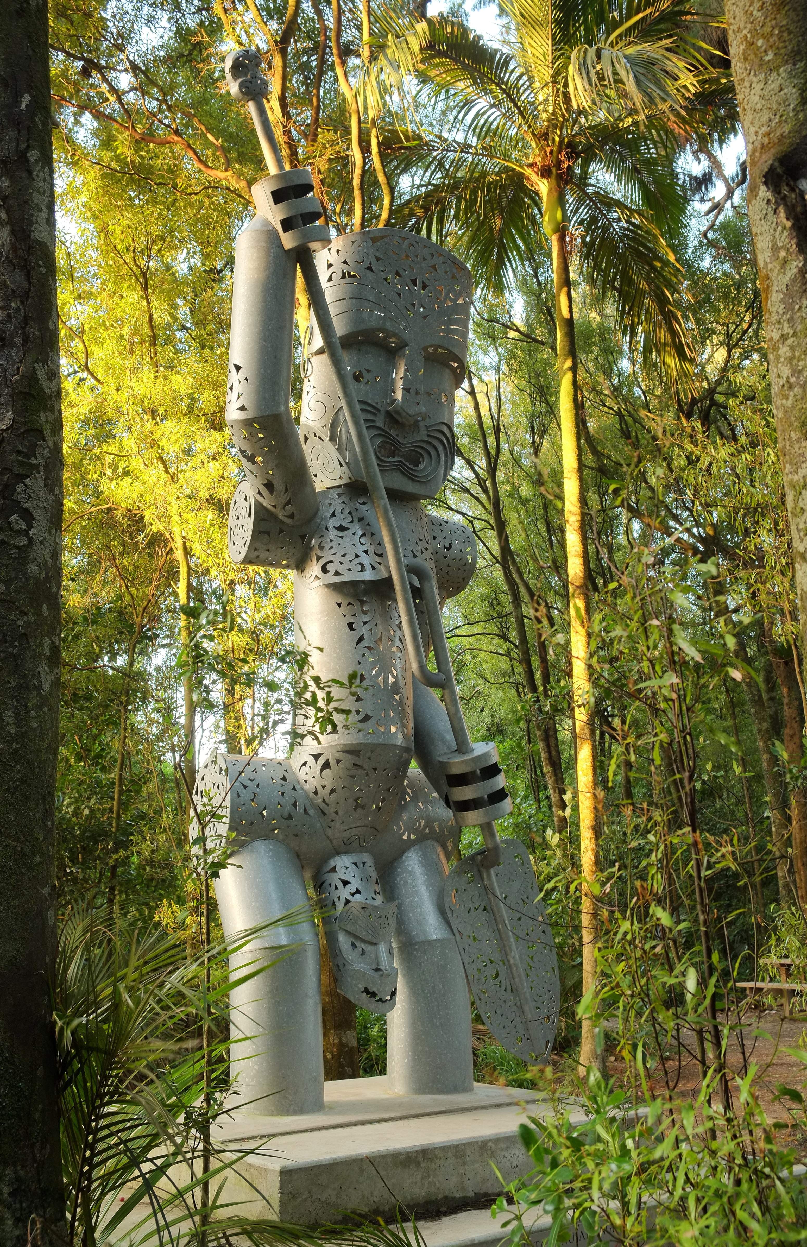 Whatonga sculpture (Te Apiti Manawatu Gorge) in evening sunlight. The statue is 6.2 m tall.